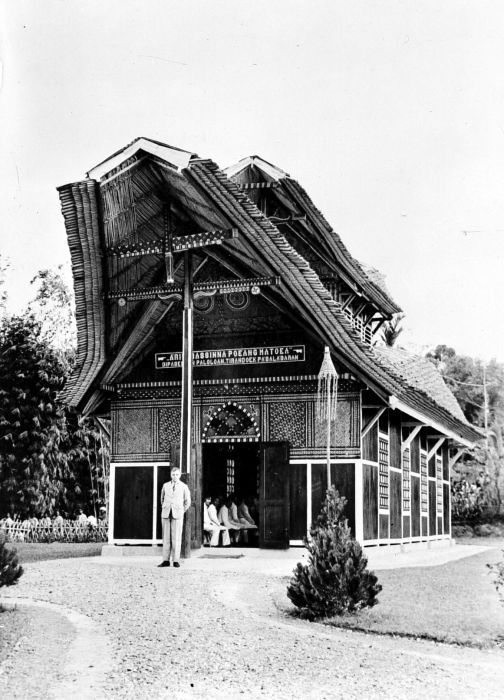 Church of the protestant mission at Sangalla